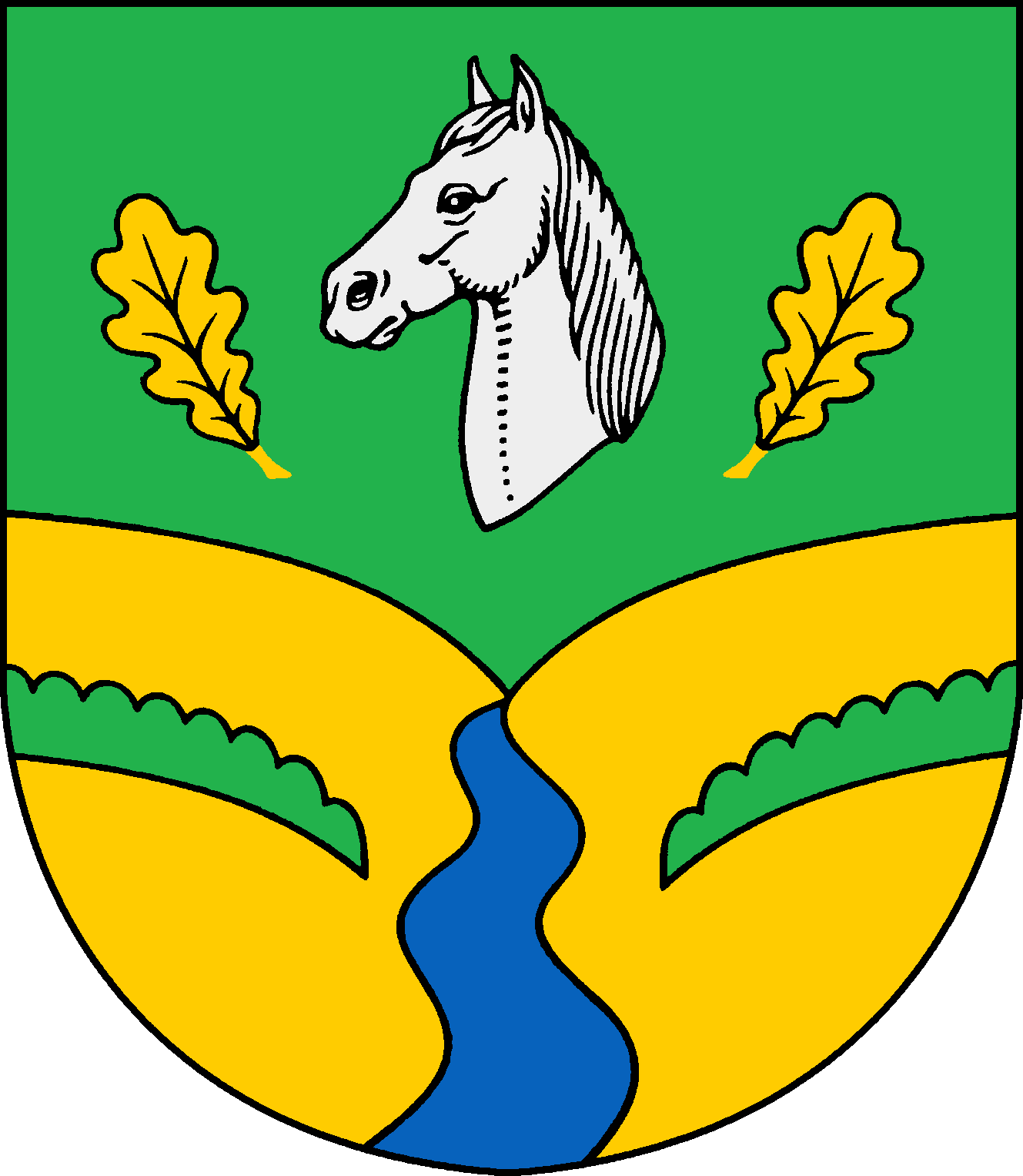 Coat of arms of the municipality Traventhal in Schleswig-Holstein, Germany.